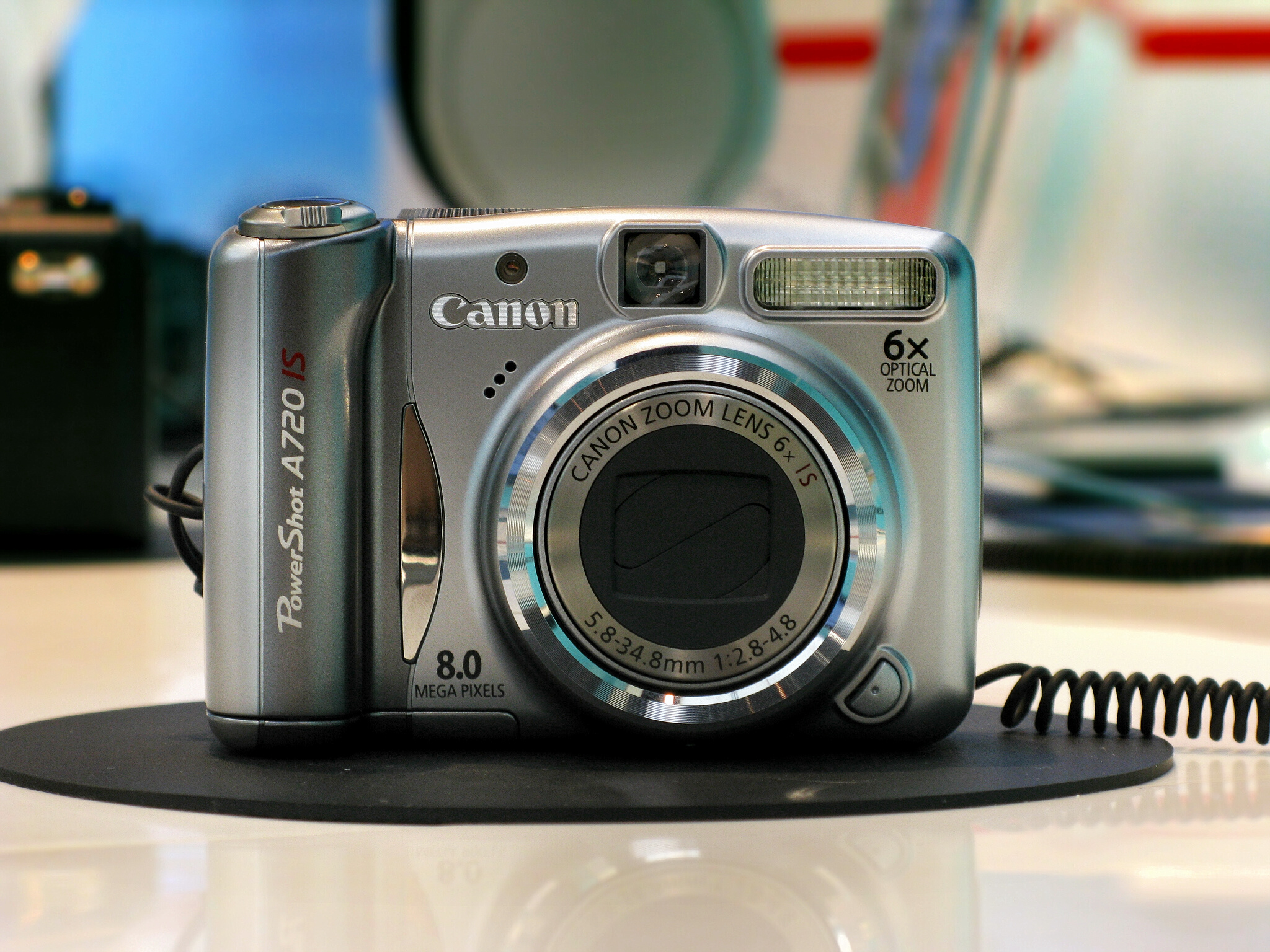 Canon PowerShot A720 IS Frontview